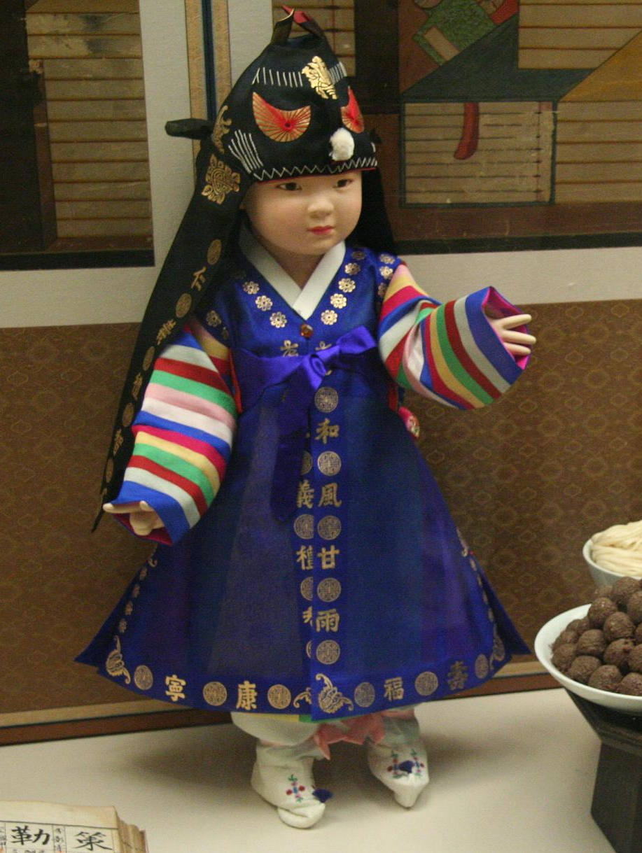 A models of Korean young boy during the Joseon dynasty in hanbok (Korean traditional clothing) are displayed at The National Folk Museum of Korea, Seoul, South Korea. The model wears the jeonbok (long sleeveless vest) over the obangjang durumagi (a colorful overcoat) and baji (baggy trouser). The model also wears hogen(headgear embroidered with a tiger pattern) on his head, and "tarae beoseon" (embroidered socks) on his feet.